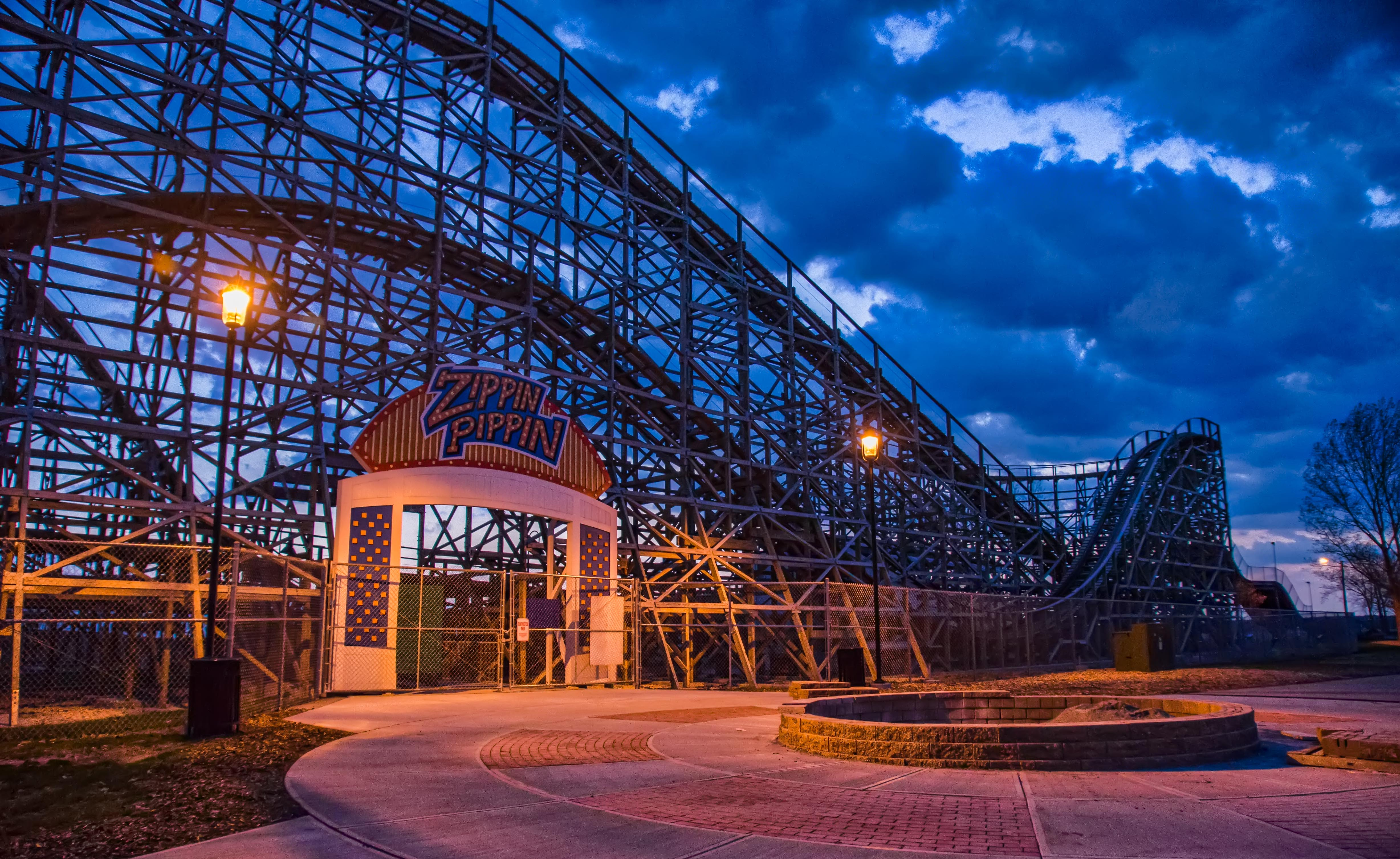 Sunrise on the Zippin Pippin right before the seaon opening.